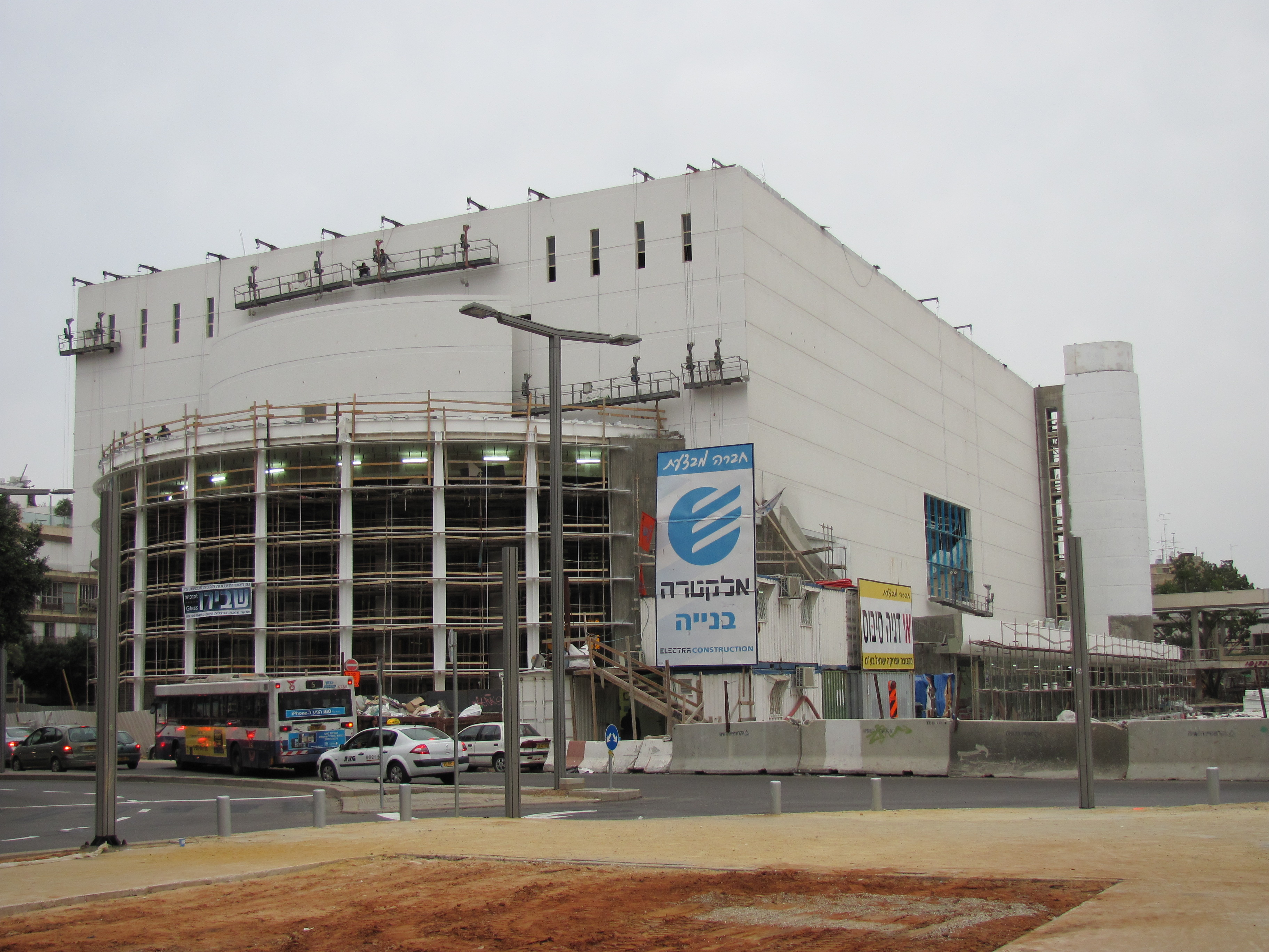 Habima national thatre undergoing renovation works.